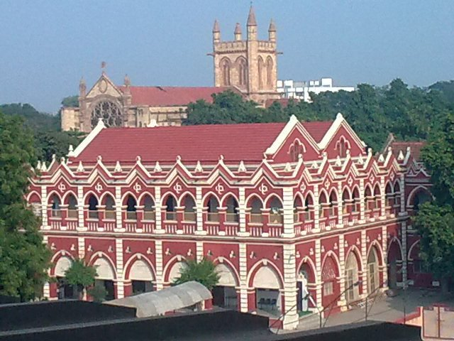 Bishop Johnson School & College, Allahabad